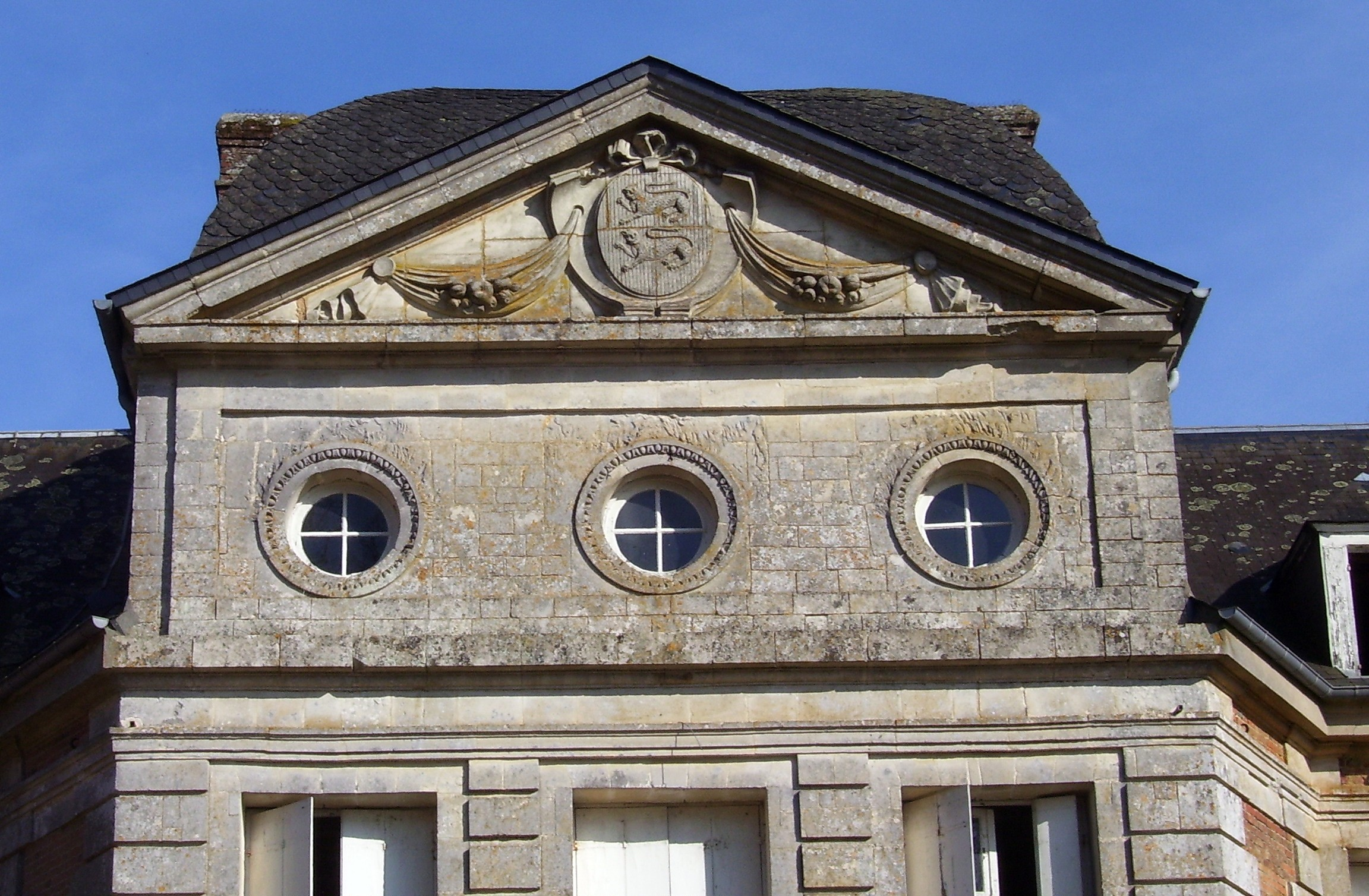 Detail of the back of the castle in Giverville, coat of arms of Normandy.